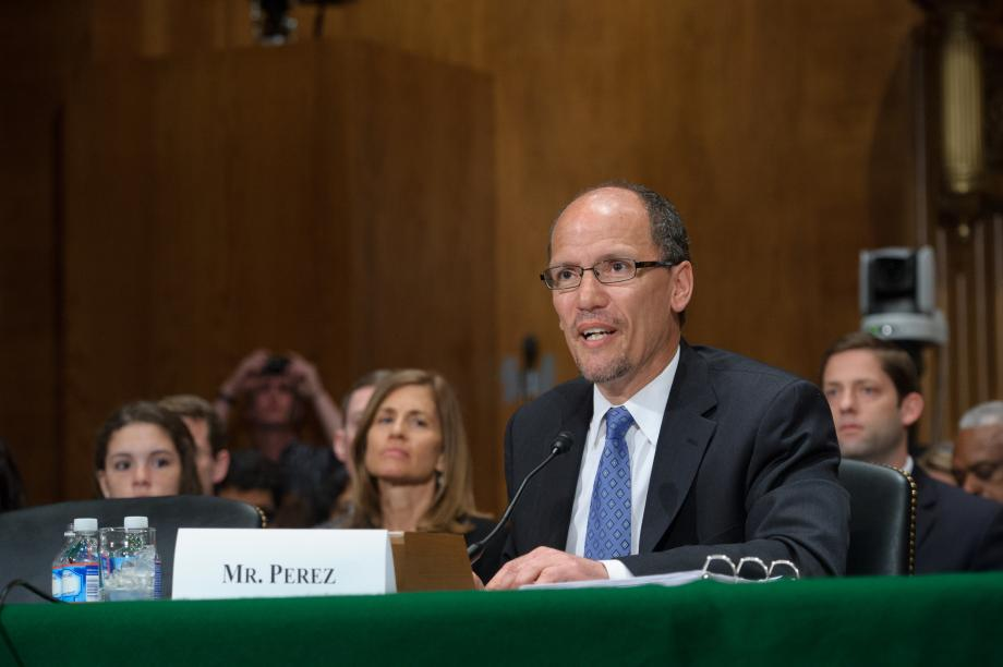 Assistant Attorney General for the Civil Rights Division in the United States Department of Justice, Thomas Perez of Maryland, at his confirmation hearing before the U.S. Senate Committee on Health, Education, Labor and Pensions, on April 18, 2013.